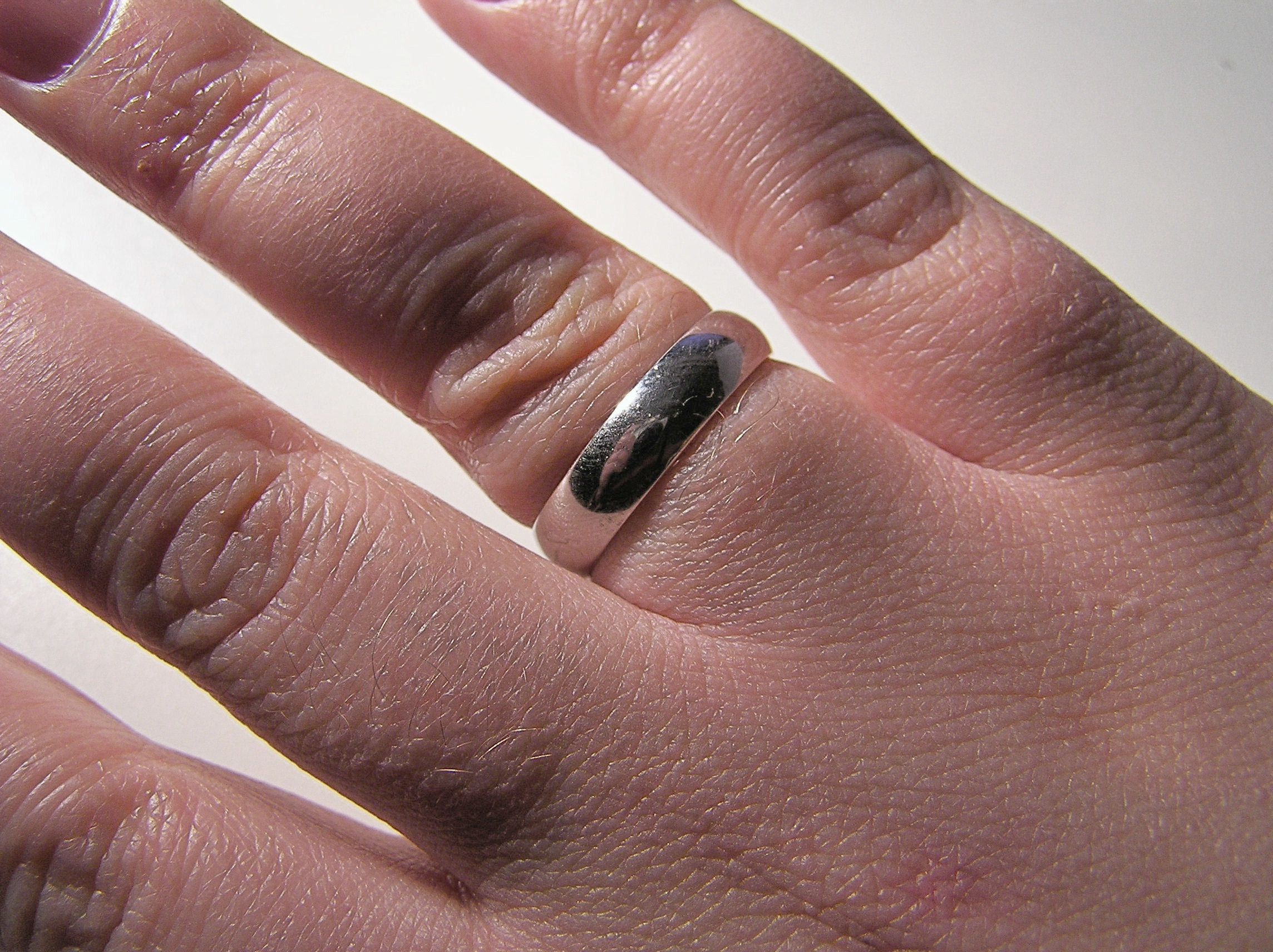 A white gold wedding ring on a right hand - A mirrored version of the original image, which was on a left hand.